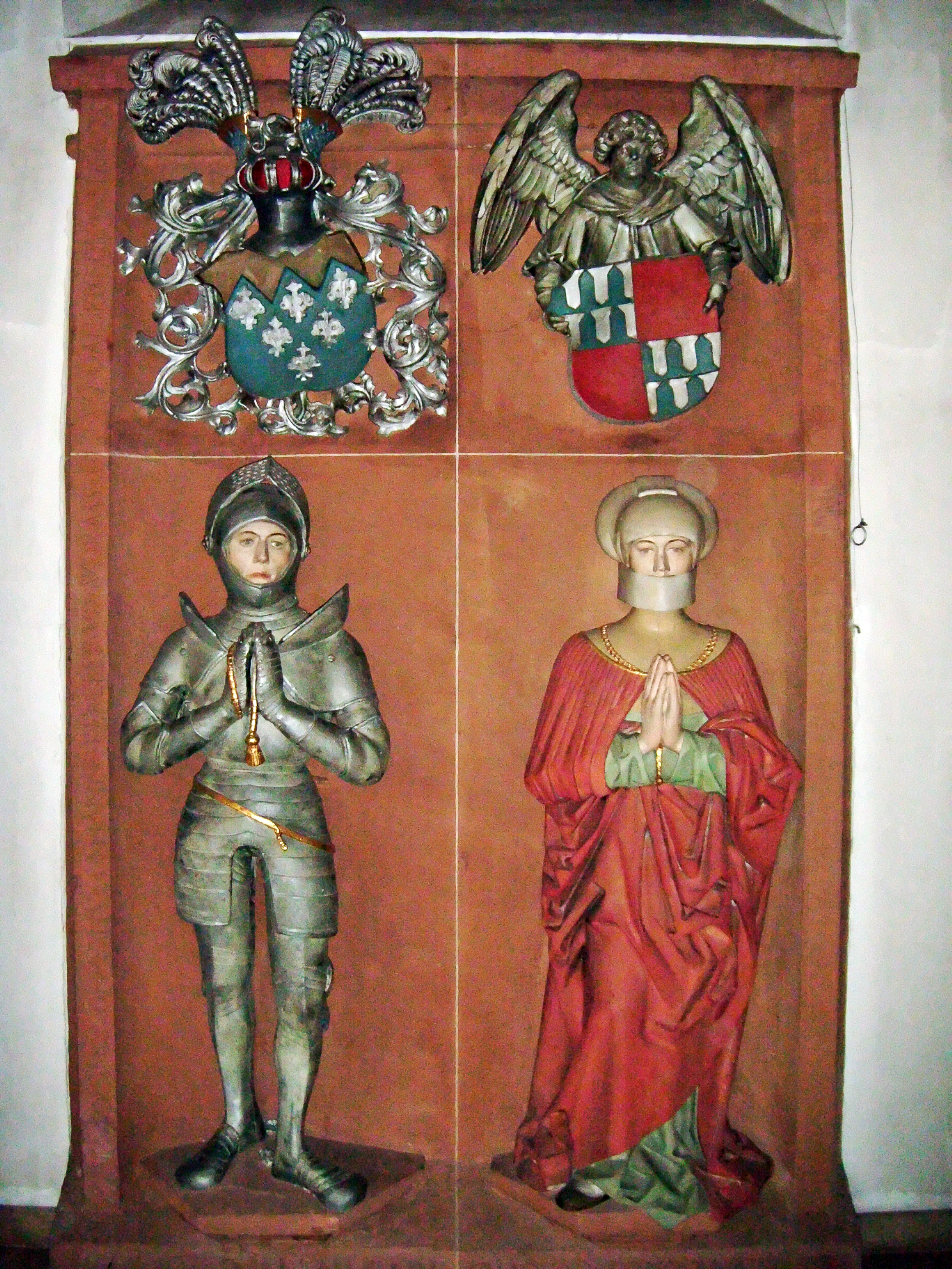 Kirche St. Martin in Sankt Martin (Pfalz), Grabmal Katharina von Kronberg († 1510) u. Hanns von Dalberg († 1531)